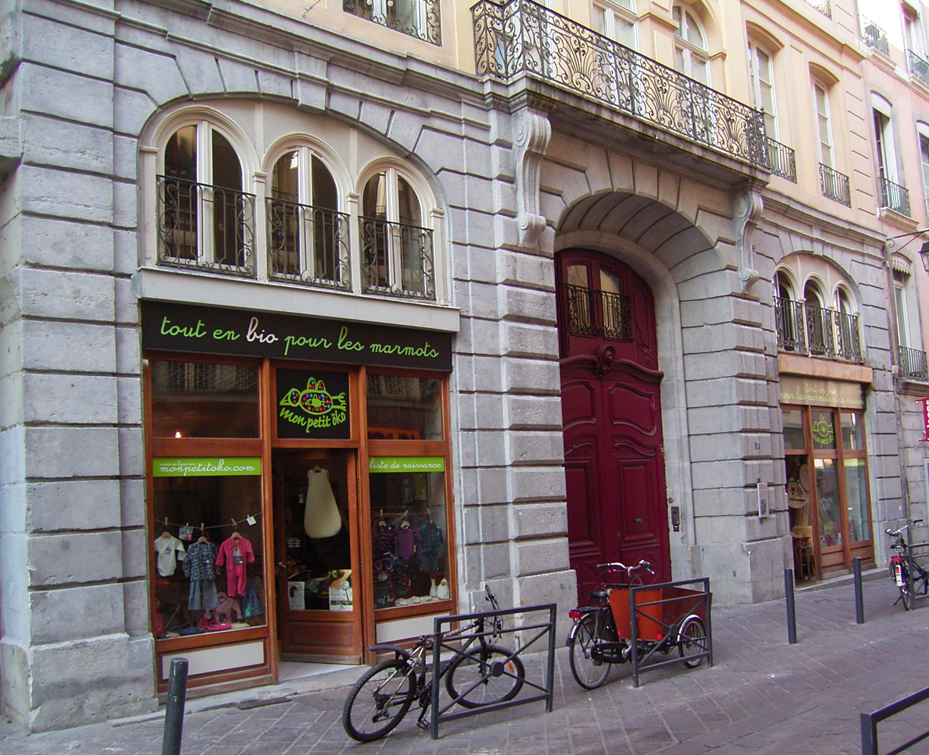 Façade of the hotel of de Croÿ-Chasnel, Grenoble, France